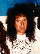 Brian May of Queen after his concert in the Imperator Hall of Rio de Janeiro